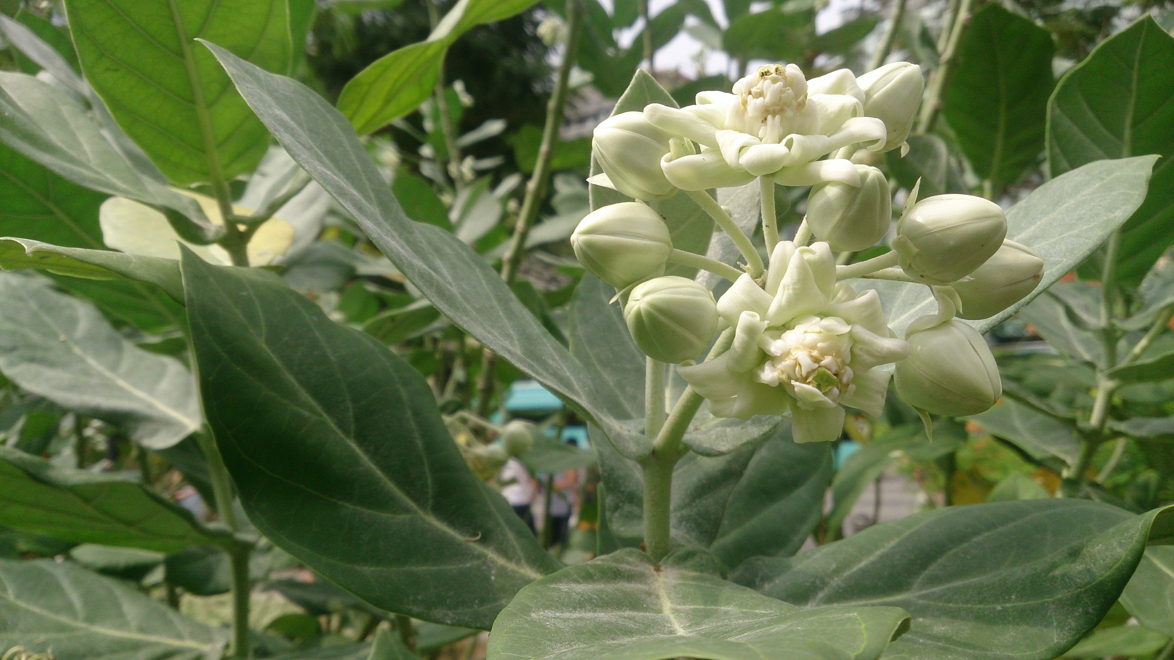 Calotropis gigantean. Synonym: Asclepias gigantean. Common names: White Madar. Crown Flower. Giant Milkweed. Ivory Plant. Svetarka (Sanskrit). 牛角瓜, 大皇冠花 (Chinese) Medicinal uses.